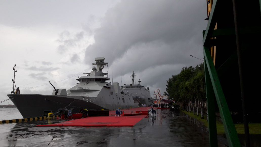 KRI I Gusti Ngurah Rai, the second Martadinata-class frigate of the Indonesian Navy